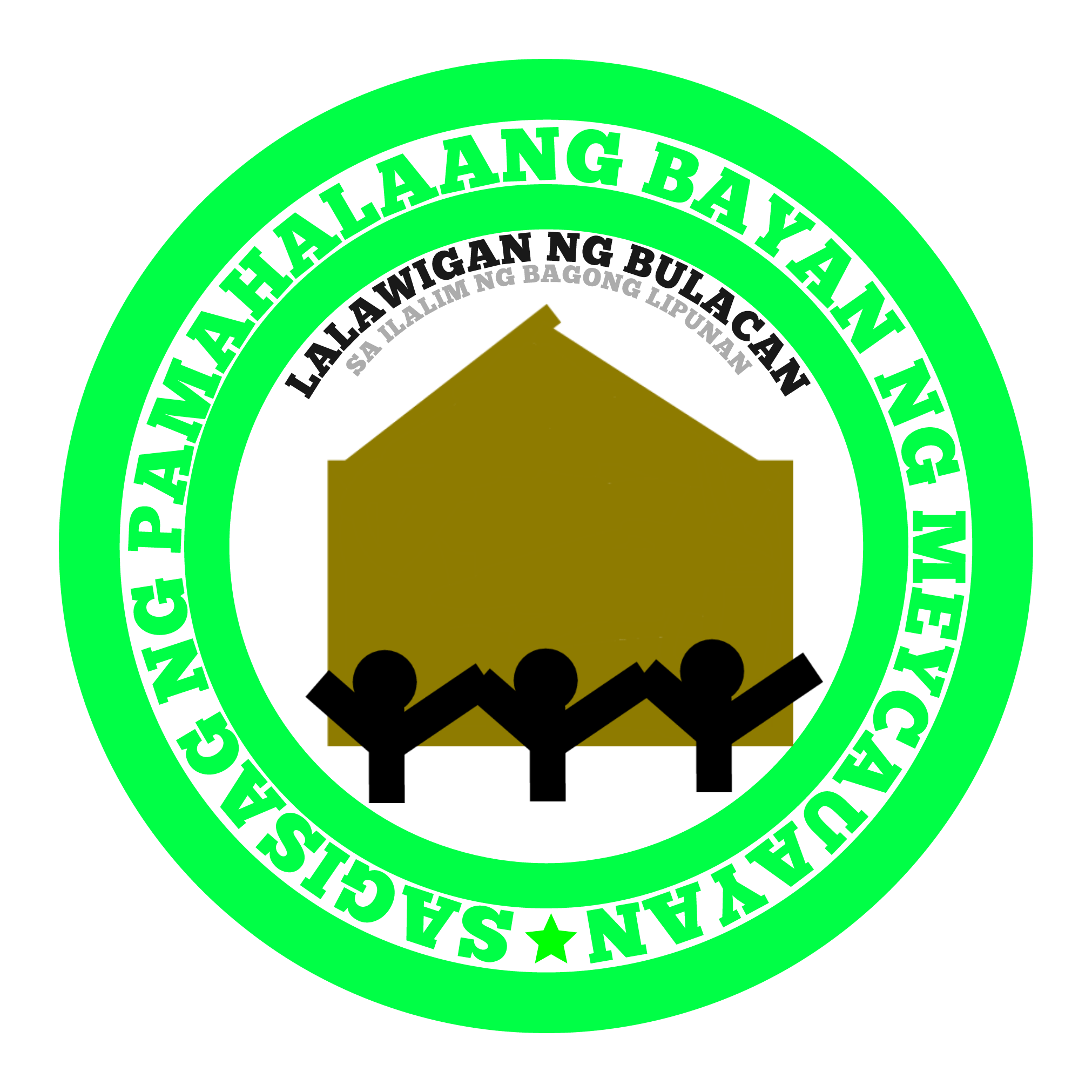 Old seal of Meycauayan during the Marcos regime (until the 1980s)